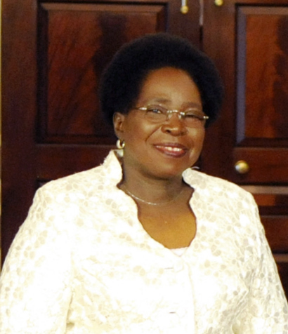 South African Minister of Foreign Affairs H.E. Nkosazana Dlamini-Zuma during bilateral meeting with U.S. Secretary of State Hillary Rodham Clinton in Washington, DC March 19, 2009.